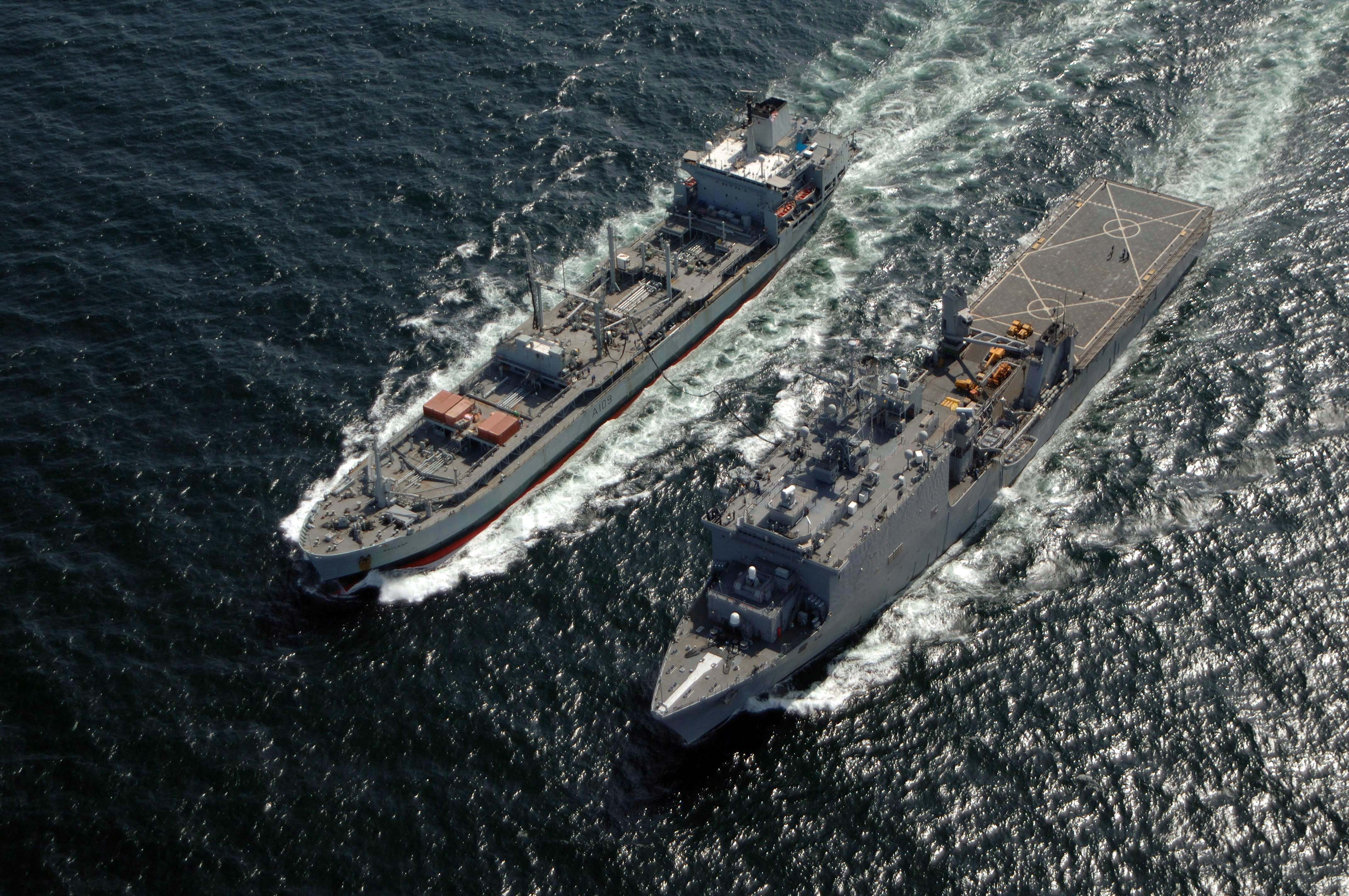 Persian Gulf (Feb. 19, 2006) - The amphibious dock landing ship USS Carter Hall (LSD-50) performs a replenishment at sea (RAS) with the British Royal Fleet Auxiliary ship RFA Bayleaf (A 109). Carter Hall is currently on a regularly scheduled deployment conducting maritime security operations (MSO). MSO sets the conditions for security and stability in the maritime environment as well as complement the counter-terrorism and security efforts of regional nations. MSO also deny international terrorists use of the maritime environment as a venue for attack or to transport personnel, weapons or other material.